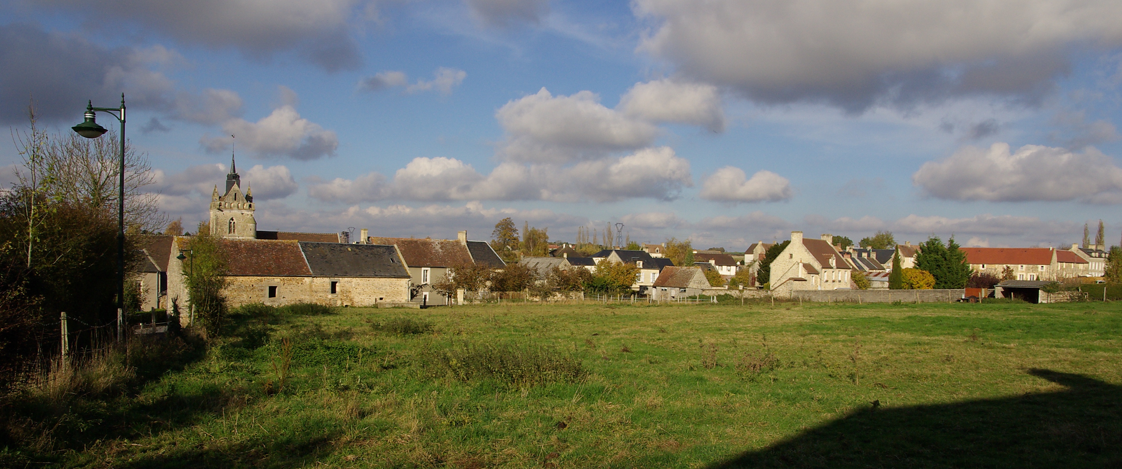 Part of view Urville village.